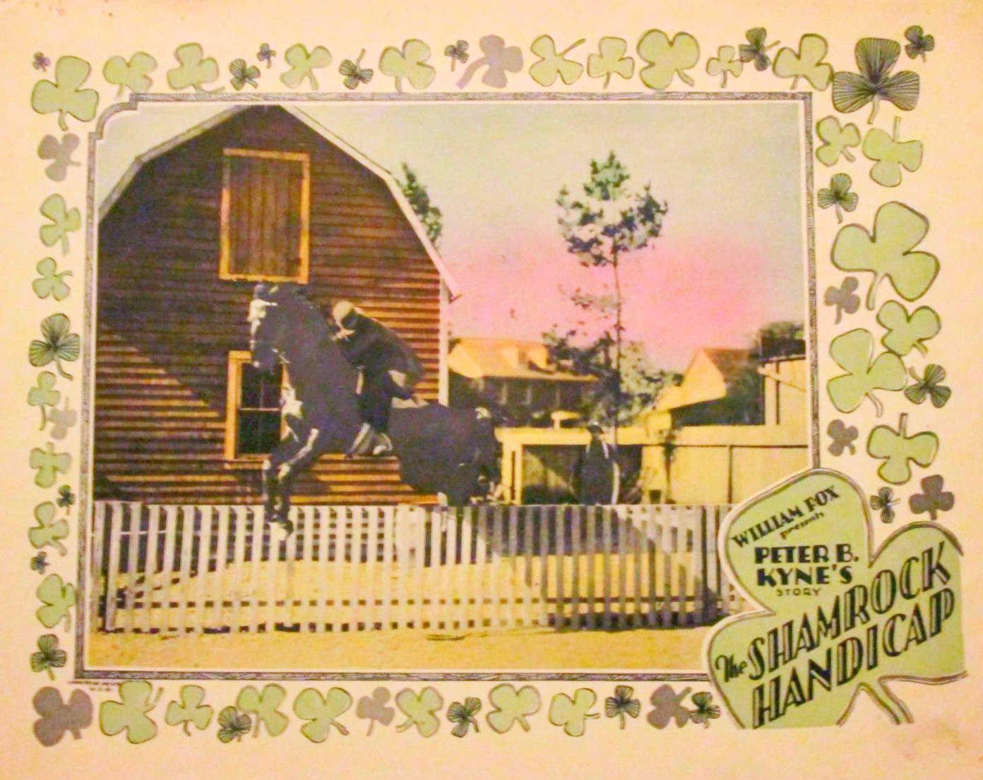 Lobby card for the American film The Shamrock Handicap (1926). There are no copyright marks as can be seen at the links.